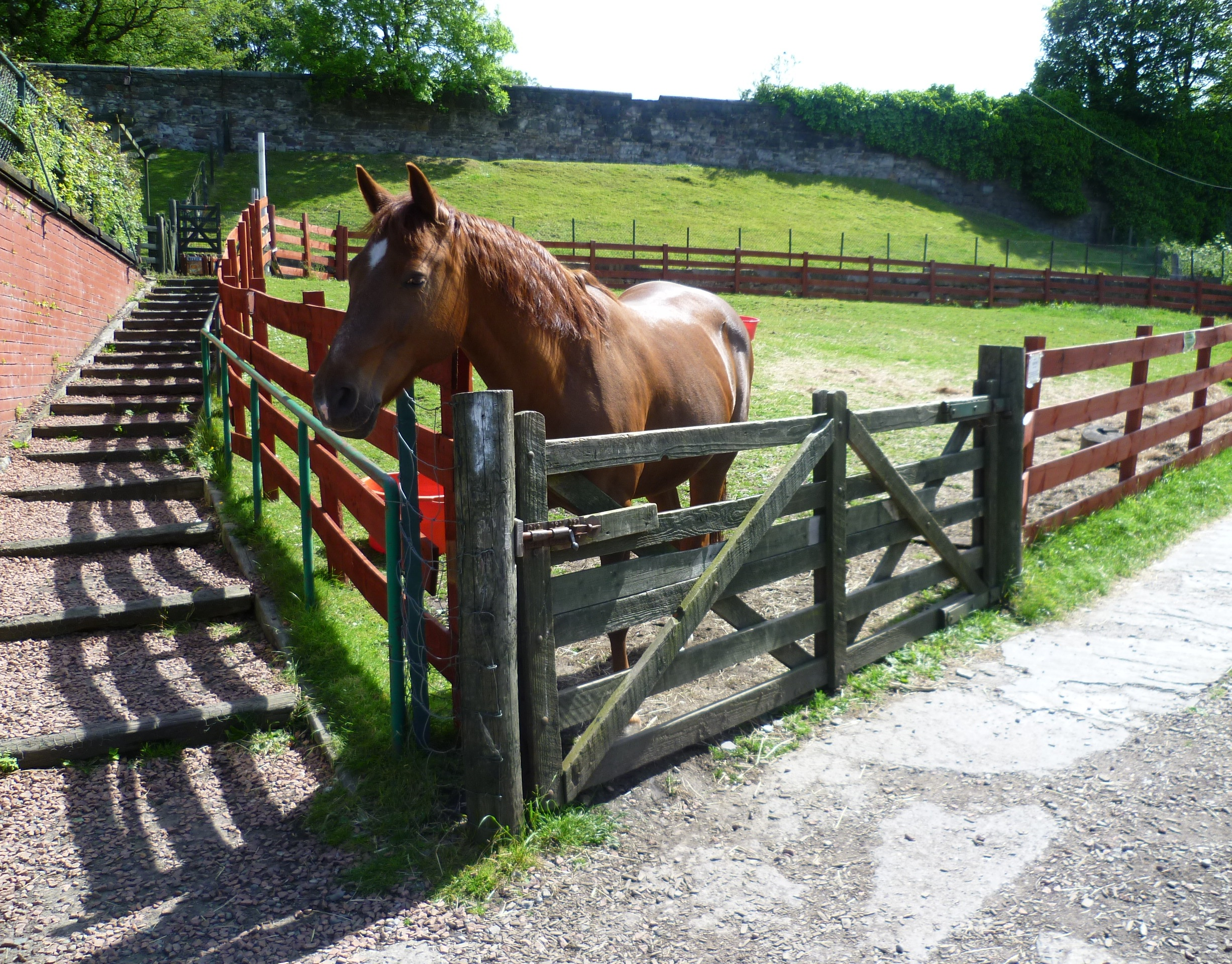 The Gorgie City Farm website relates that "In 1977 a community group started clearing the derelict site of what is now Gorgie City Farm. There were plans to develop the site for housing or for a school, but local people insisted green space was the priority and the City Farm opened to the public in 1982. Ever since it has been a working farm, selling lambs, pigs, eggs, vegetables and manure to raise some of its running costs." As a registered charity the farm survives partly on the donations it receives from the thousands who visit it each year.